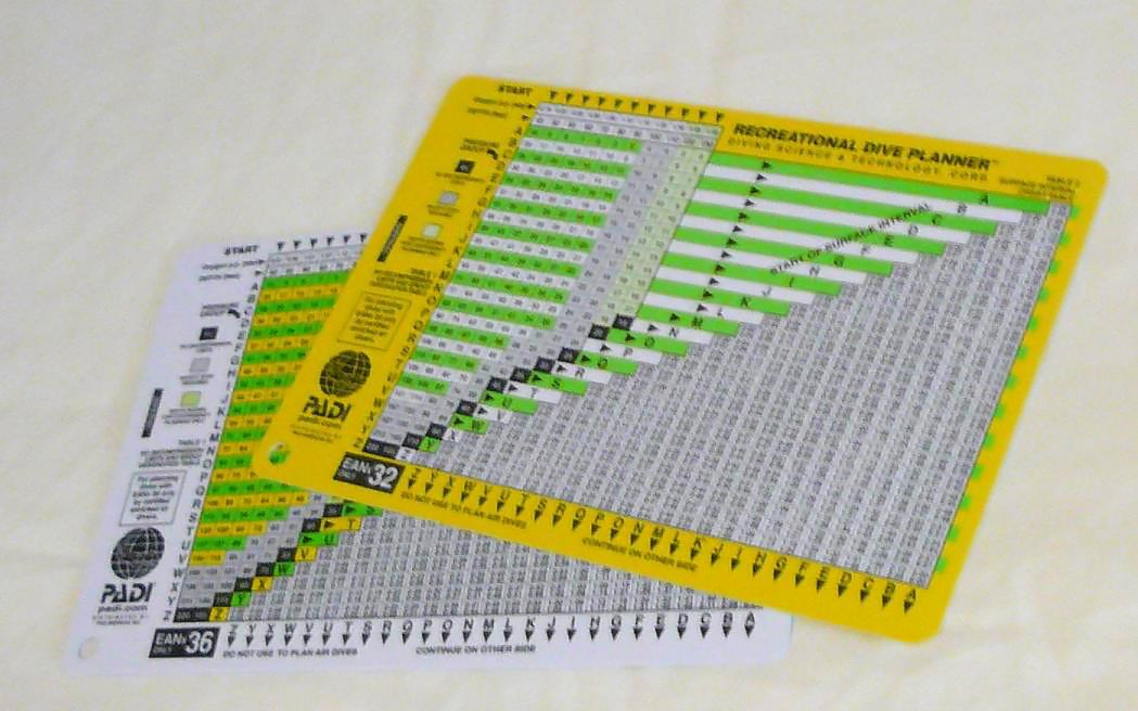 Photograph of Enriched Air Nitrox diving tables